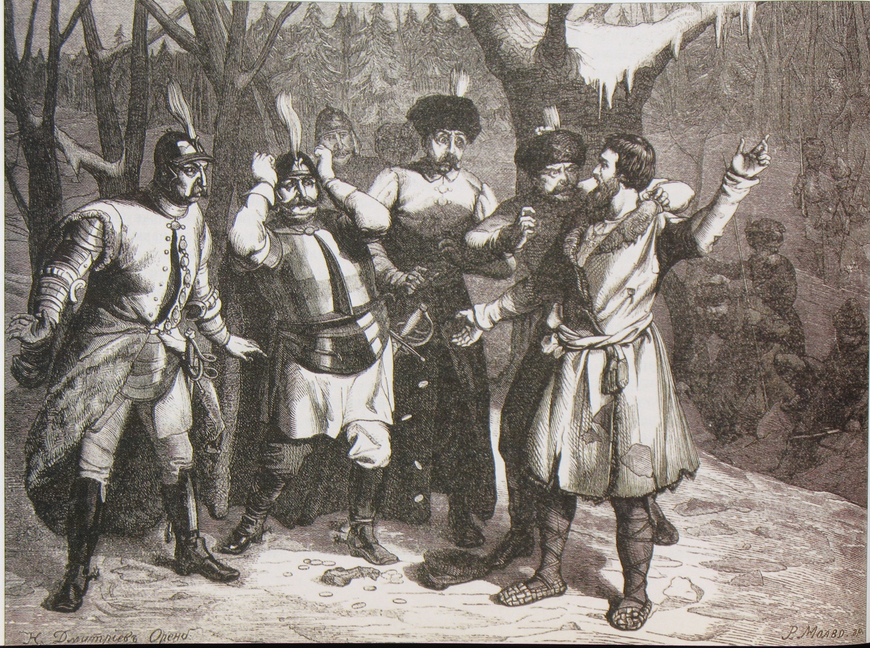 Ivan Susanin Н. Дмитриев-Оренбургский (рисунок). Подвиг крестьянина Ивана Осиповича Сусанина. Гравюра Р. Молво.